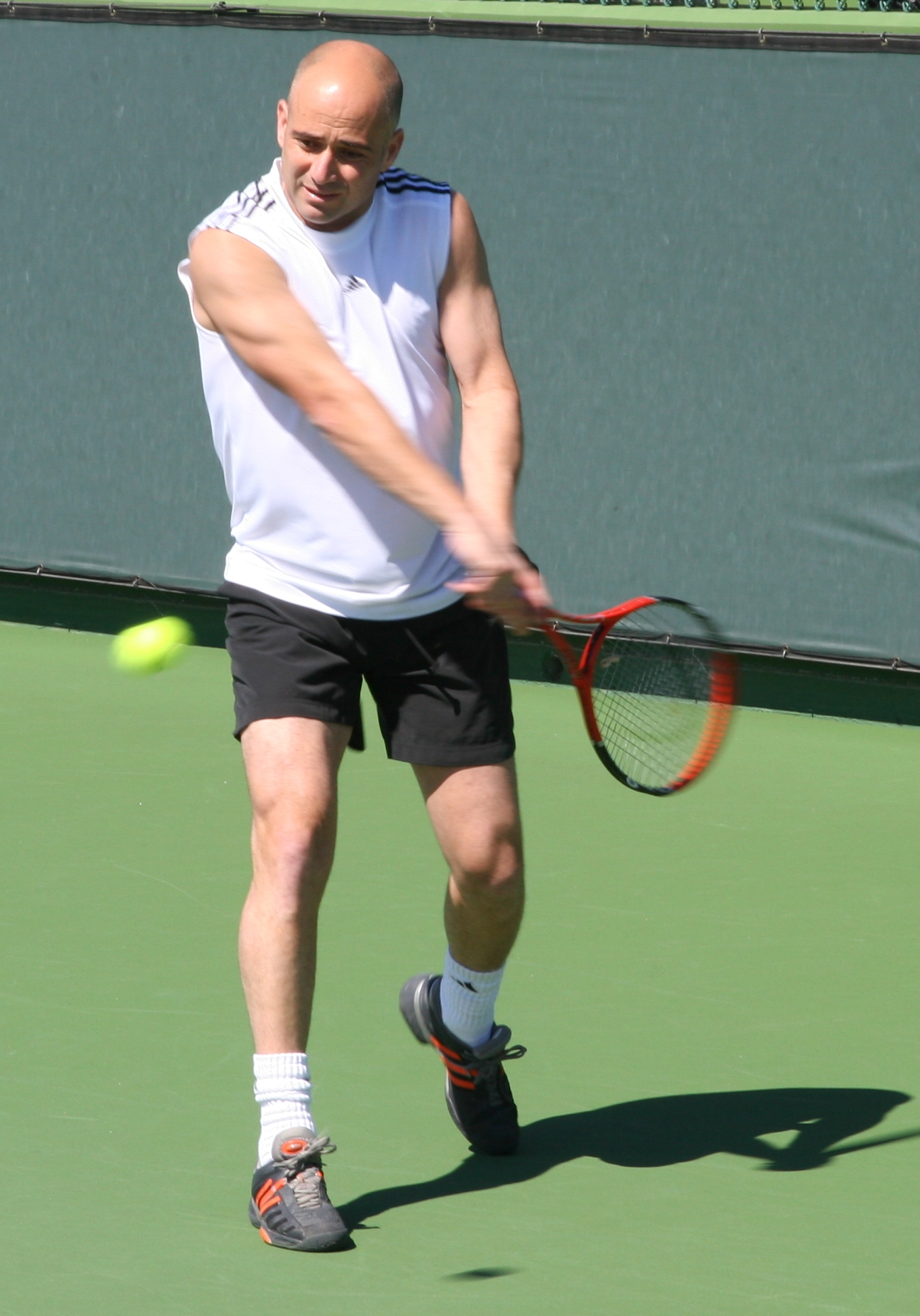 Andre Agassi practicing in Indian Wells, California, USA, on Sunday March 12, 2006.